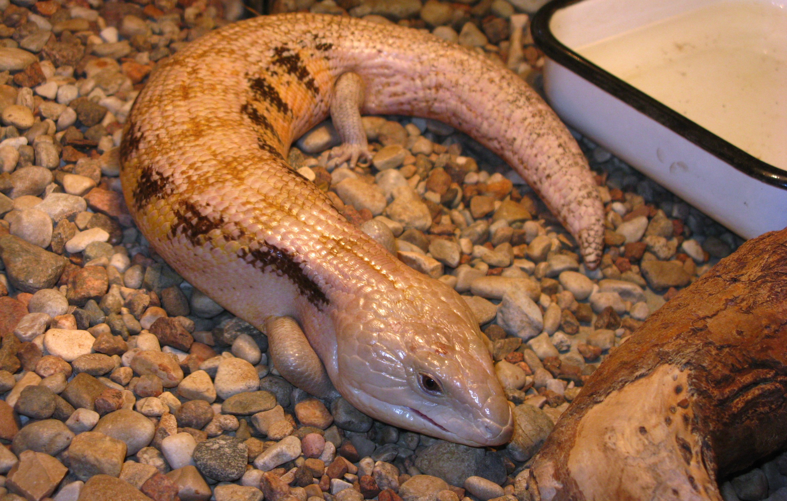 Giant вlue-tongued skink (Tiliqua gigas) in the zoo of the city of Grodno, Belarus.